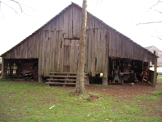 Baret and I took an impromptu little trip out to the LSU Rural Life Museum on Feb. 9, 2008. The barn. Baret and I were wondering if these types of old barns are indigenous to Louisiana; the construction and design are extremely common around these parts; you see them everywhere. Can anyone speak for seeing these types of barns around their own areas?